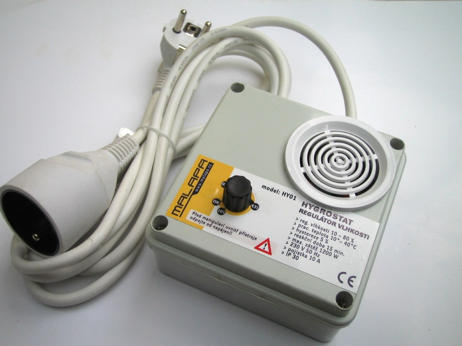 electromechanical moisture switch